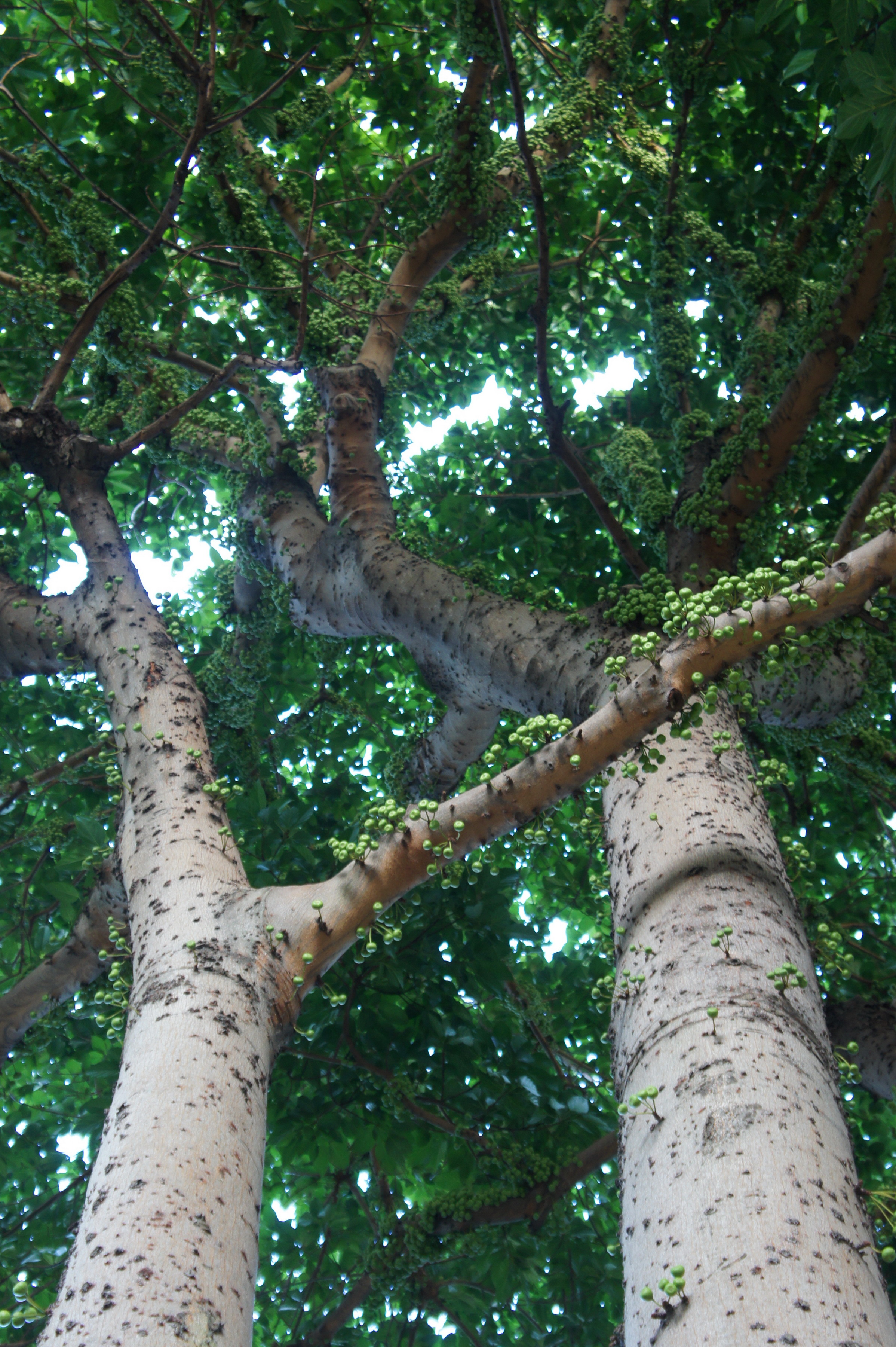 Ficus variegata var. chlorocarpa (photo shot at Nan Lian Garden, Hong Kong).